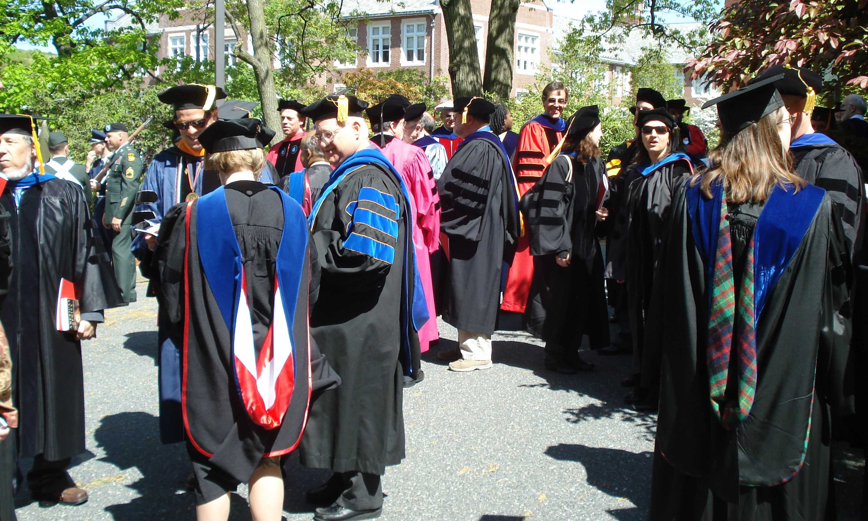 Various doctoral regalia shown during Worcester Polytechnic Institute Graduation May 2008